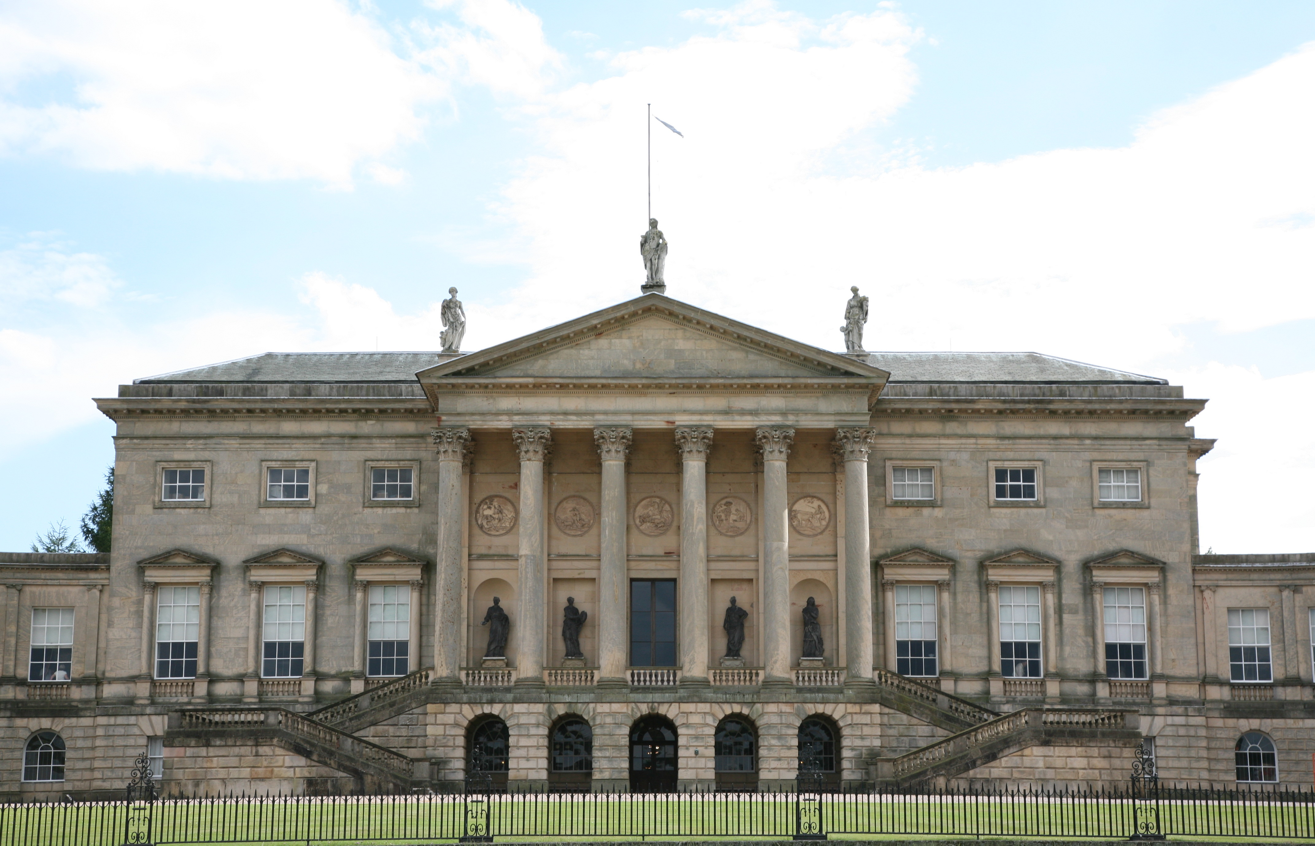 Kedleston Hall in Derbyshire. The house designed by James Paine , Matthew Brettingham and finished by Robert Adam. The Palladian noth front.